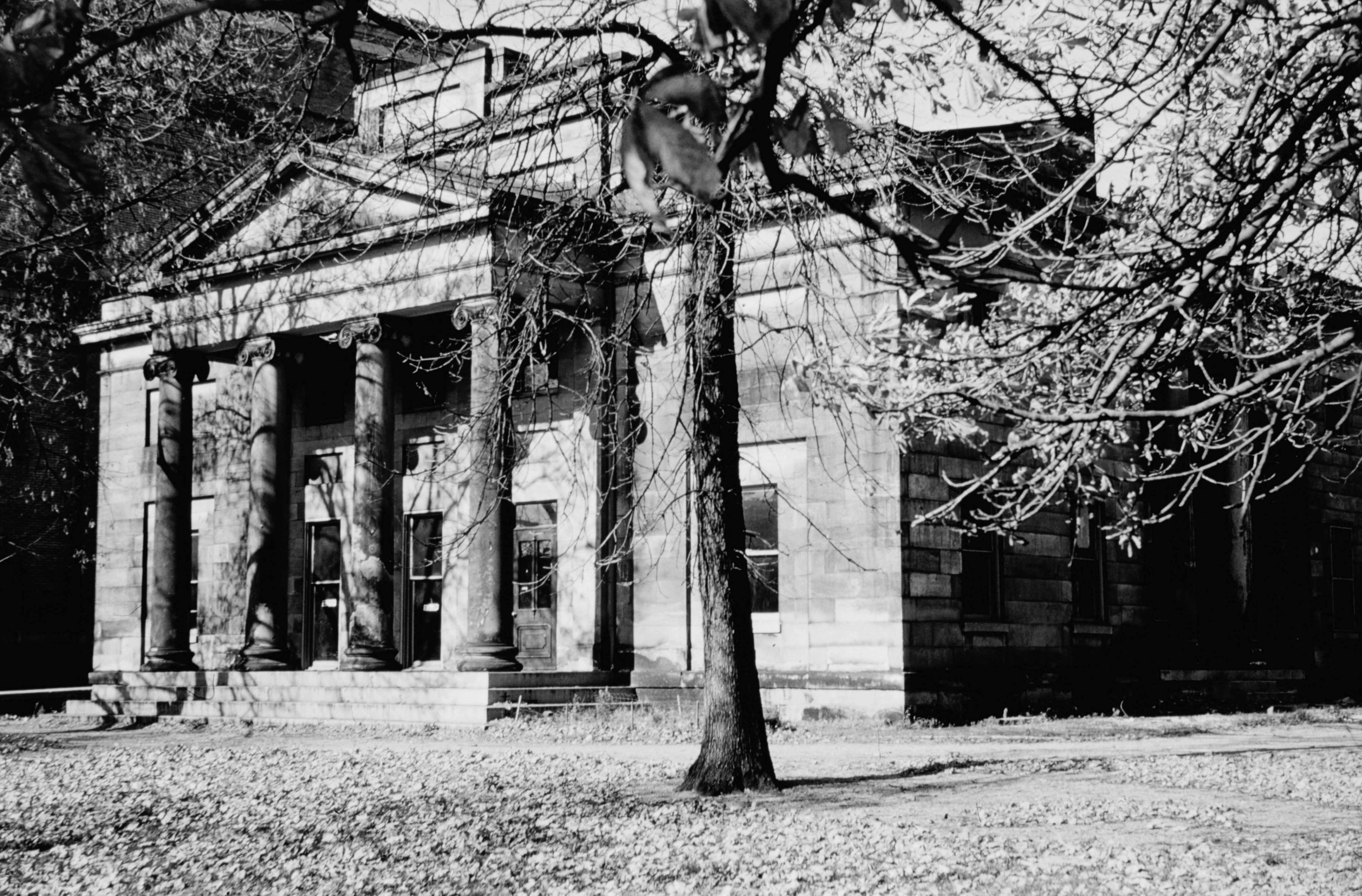 Historic American Buildings Survey, Photograph by students of Perry E. Borchers, 1958 SOUTH, FRONT ELEVATION. - Alfred Kelley House, 282 East Broad Street, Columbus, Franklin County, OH